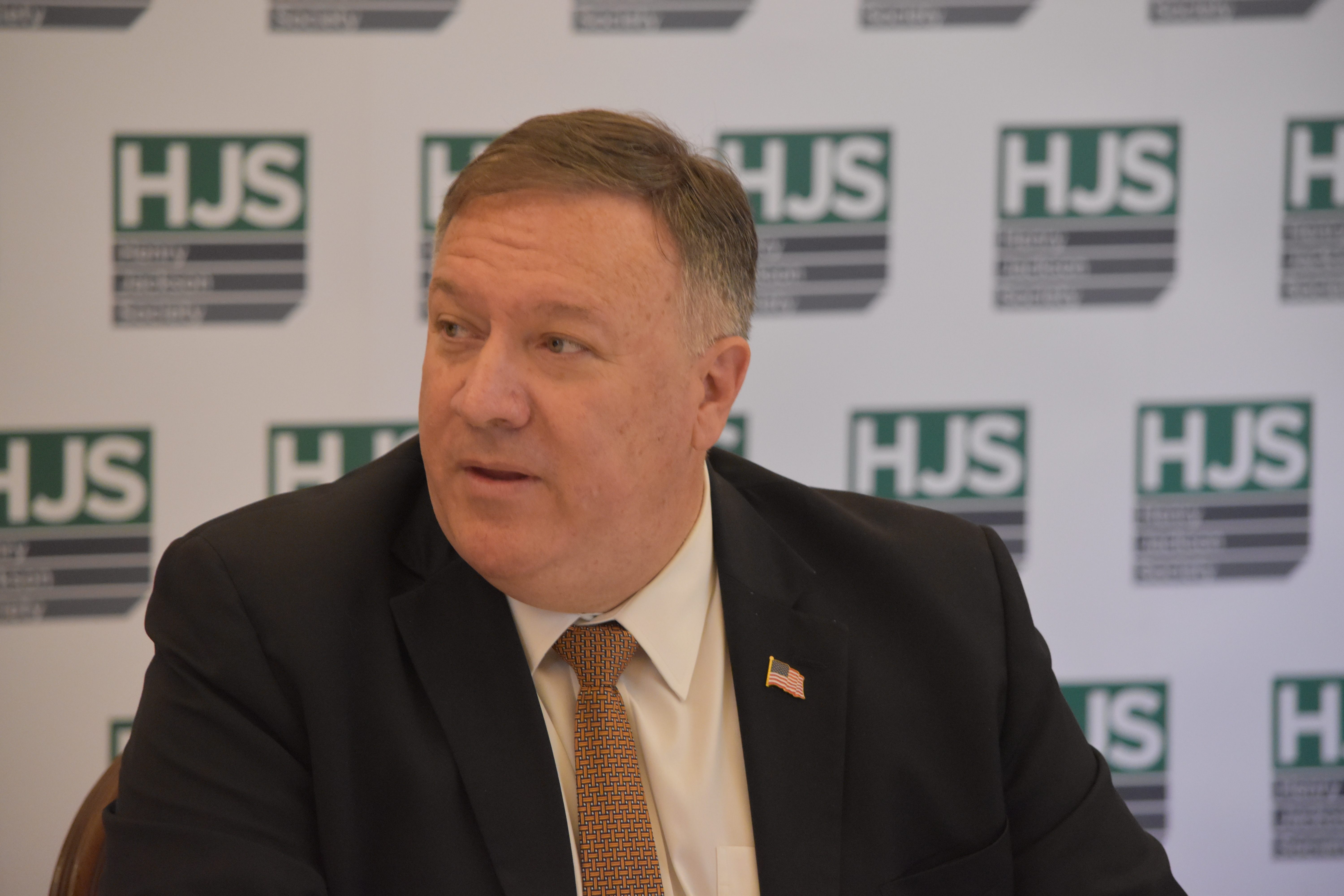 This shows the US Sec State Mike Pompeo at Henry Jackson Society Millbank Tower 21 July 2020